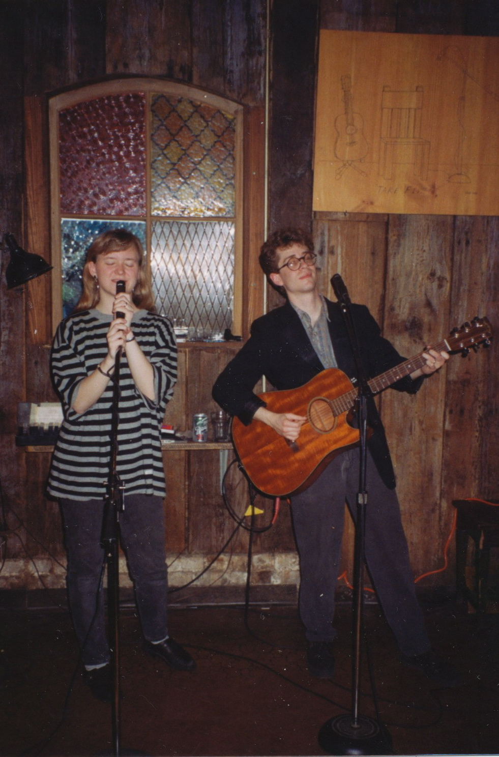 "The Anachronauts" (Scott Burright and Stacey Hathaway Burright); early gig at "The Neutral Ground" coffee house, Uptown New Orleans, 1992 Notice: Reuse authorized with attribution ONLY according to licenses specified by the author, unless specific permission given by author to reuse otherwise.